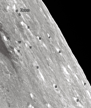 Zeno lunar crater as seen from Earth with satellite craters labeled